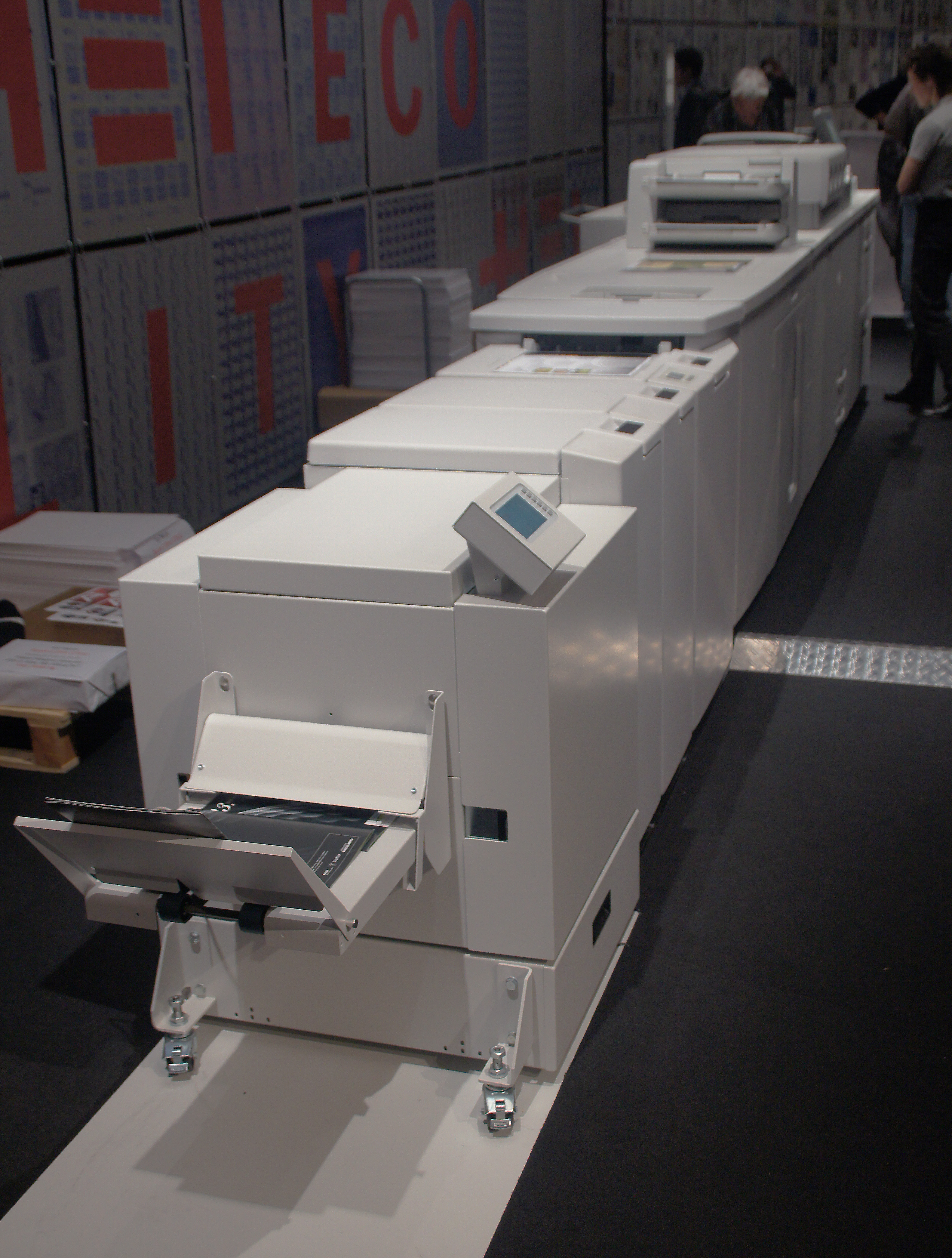 Scan- and Duplex-capable laser printing system for A3+ sheet fed production in CMYK plus spot colors